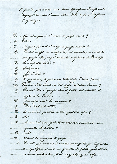 Autograph page of the Catechism written by Pius X (1908).